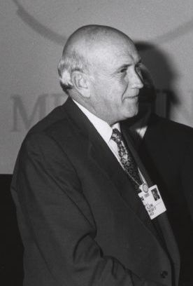 Frederik de Klerk at the Annual Meeting of the World Economic Forum held in Davos in January 1992 Copyright World Economic Forum (